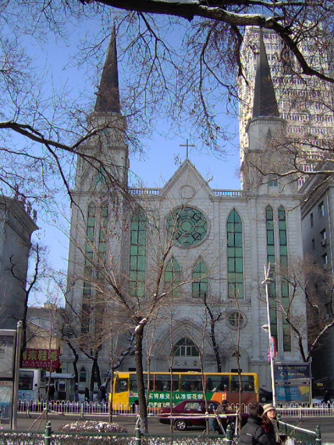 harbin cathedral